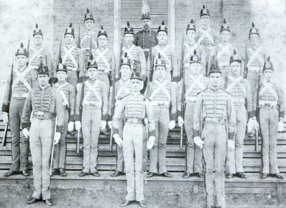 believed to be J.T, Murfee(middle of the backrow) with cadets from B Co. Howard College